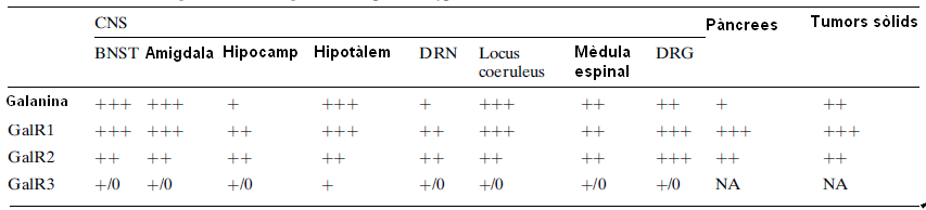 galanins' distributation table